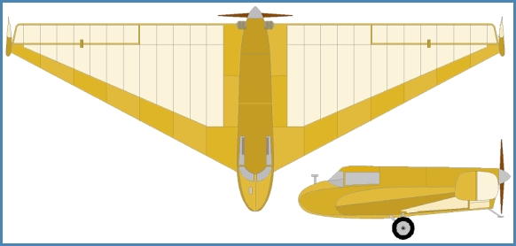 Lippisch Delta 2